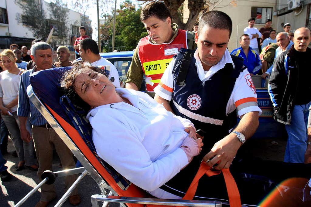 Israeli woman injured from Hamas Grad rocket fired at Beer Sheva from Gaza